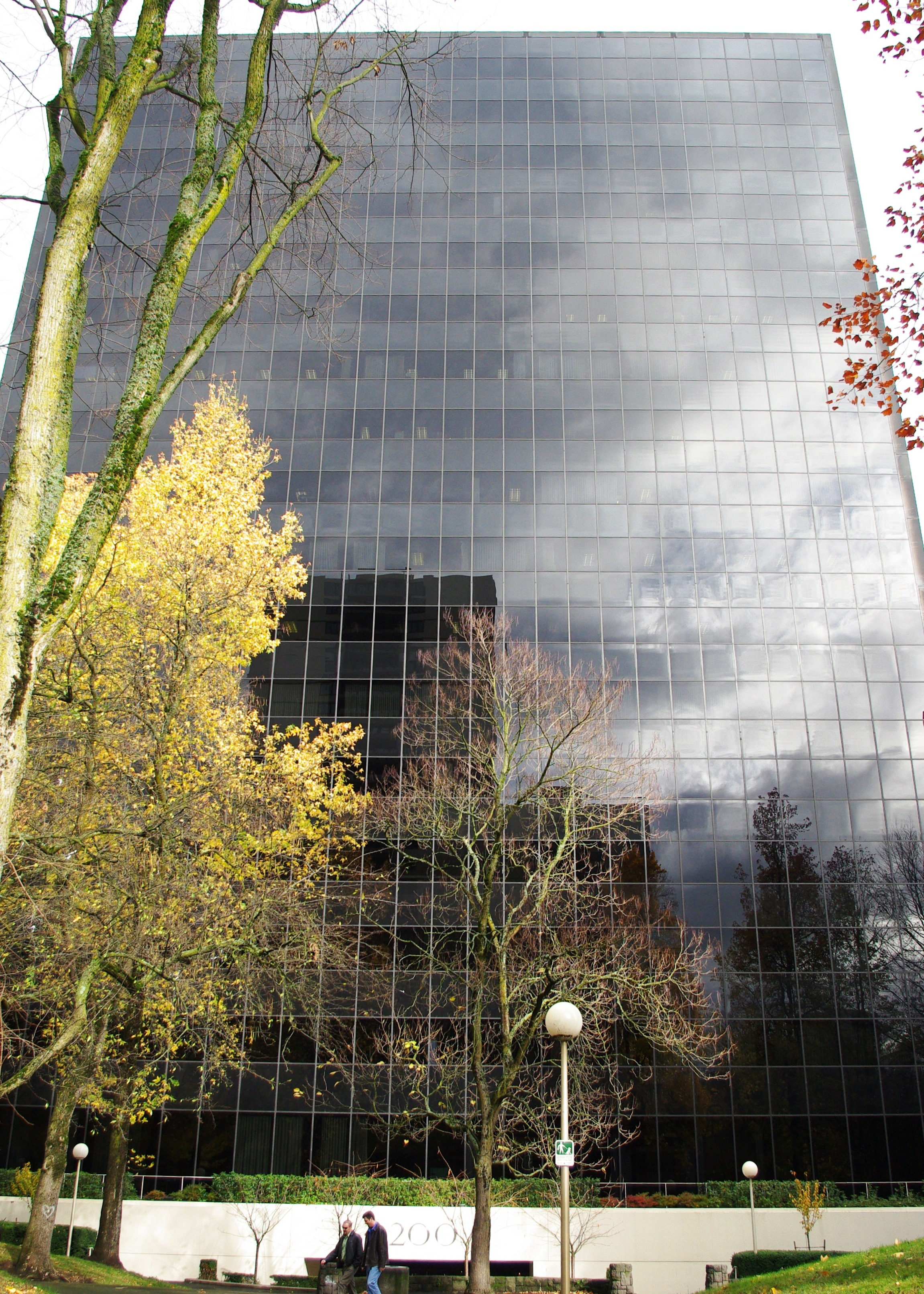 w:200 Market skyscraper in Portland, Oregon, USA.